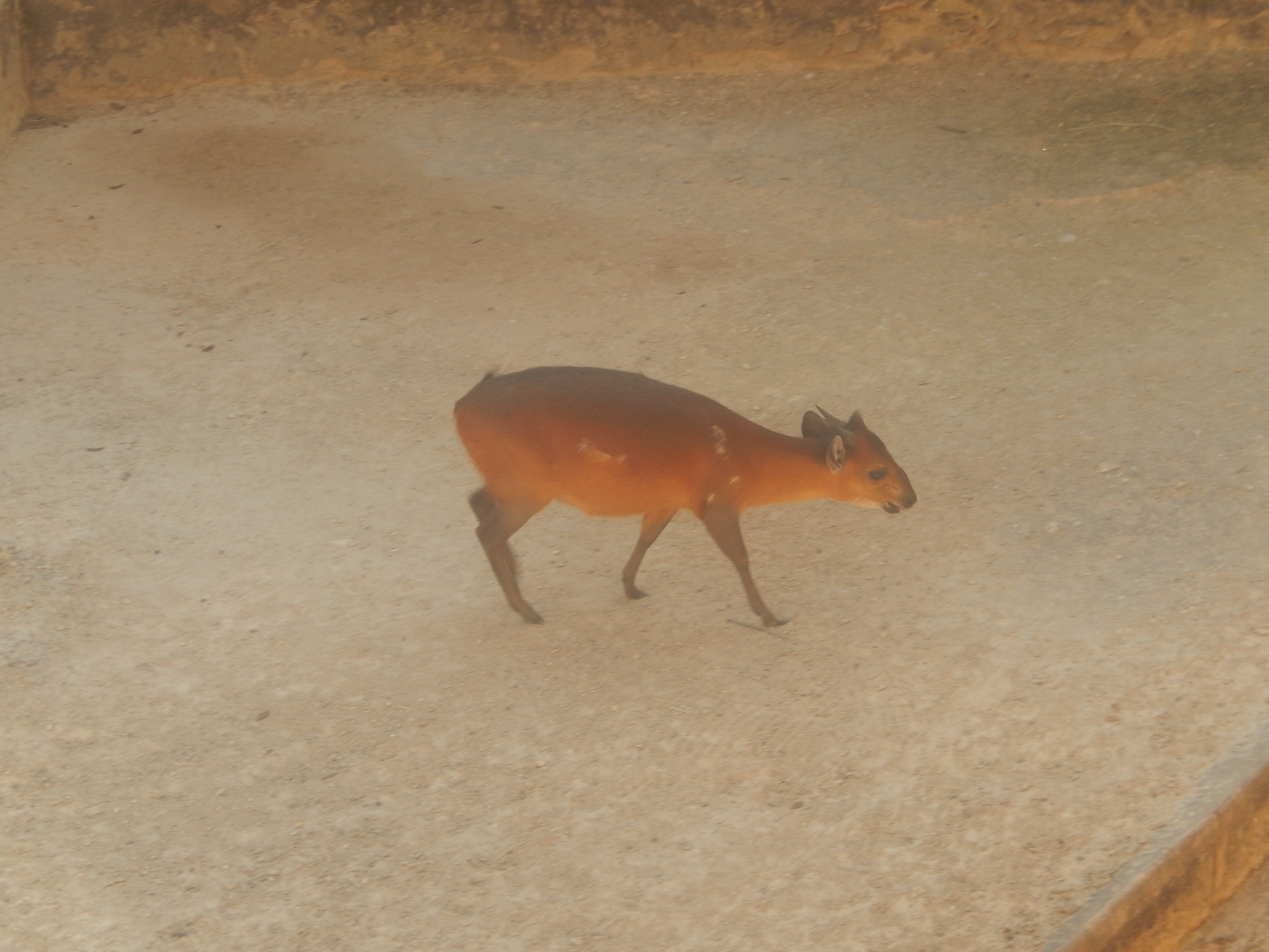 I took photo of red-flanked duiker at San Antonio Zoo and Aquarium, with Nikon camera